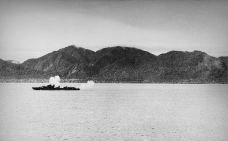 The Royal Australian Navy destroyer HMAS Arunta (I30) bombarding Japanese positions at Aitape, New Guinea, July 1944.